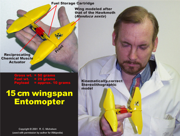 Author: Robert C. Michelson Source: Robert C. Michelson archives Author grants permission to use his own copyrighted material in the Wikipedia entry for the Entomopter that he has created.